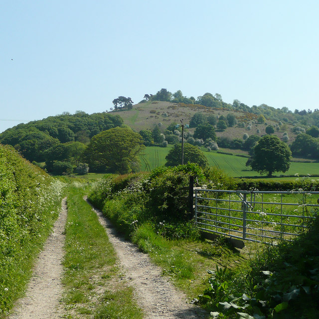 Croft Ambrey The hill-fort is a prominent feature to the east of Yatton. Gorse and hawthorn in blossom stand out against the still-brown of old bracken.